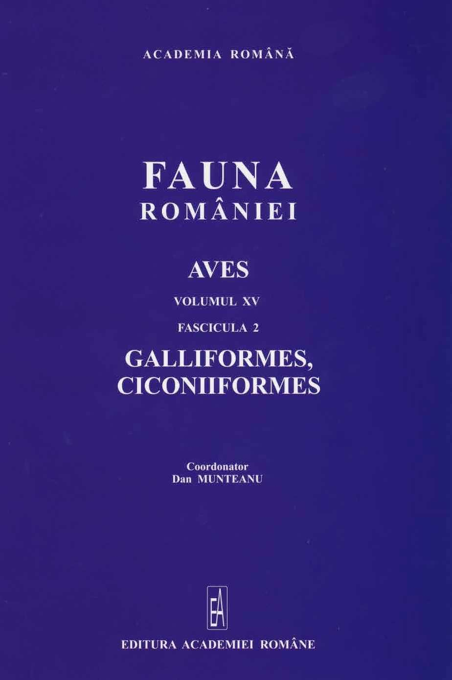 Fauna Romaniei Vol. 15, Fascicula 2